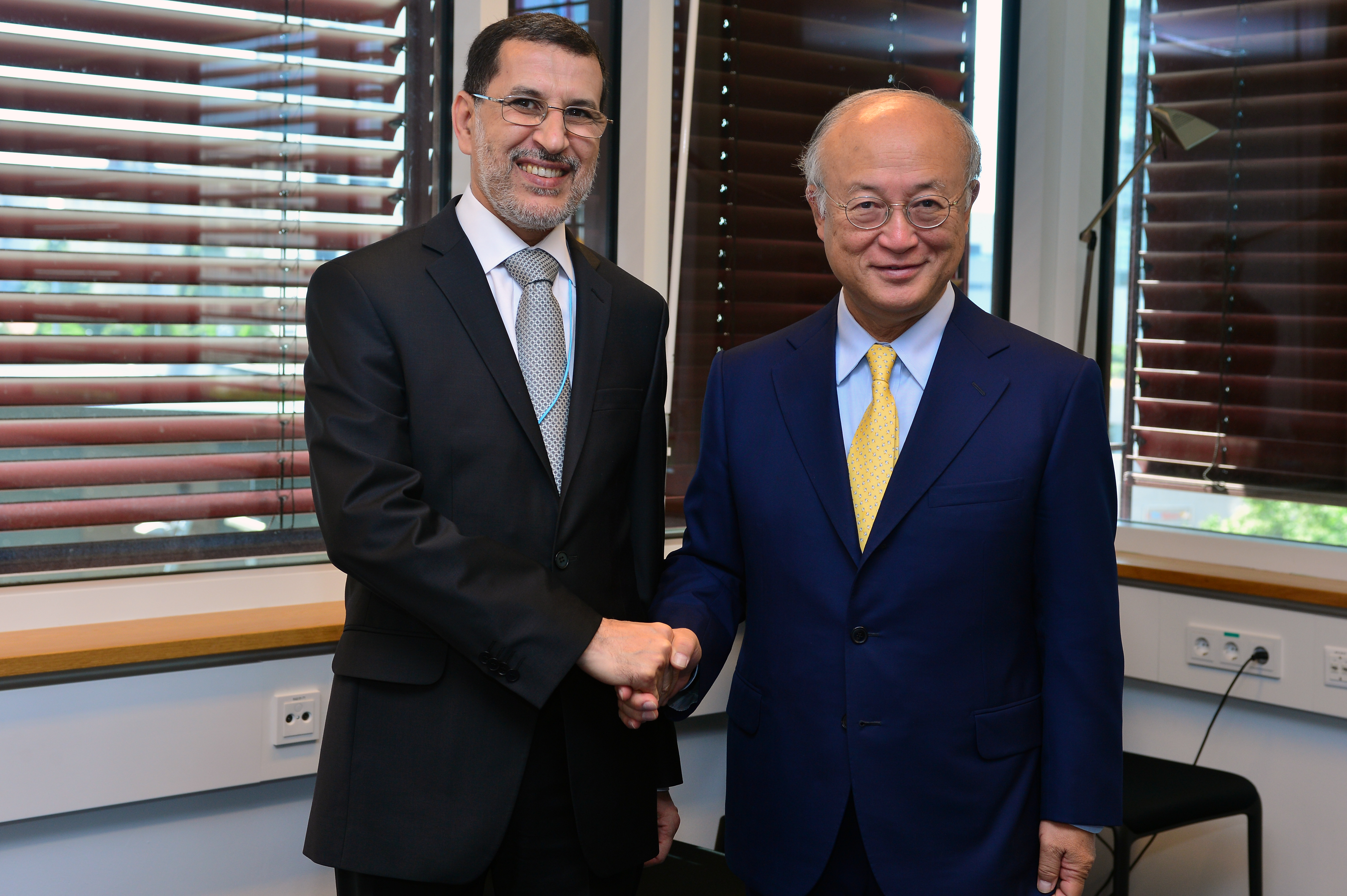 Bilateral meeting between H.E. Saad Dine El Otmani, Minister of Foreign Affairs of the Kingdom of Morocco and IAEA Director General Yukiya Amano during the International Conference on Nuclear Security: Enhancing Global Efforts. IAEA Headquarters, Vienna, Austria, 2 July 2013 Photo Credit: Dean Calma / IAEA